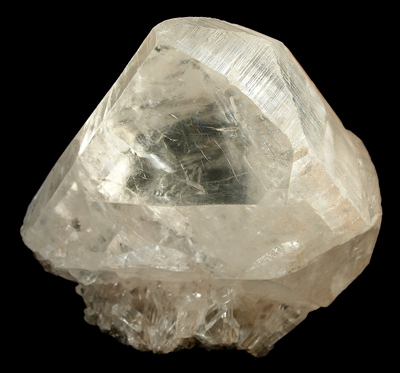 Calcite Locality: Egremont, West Cumberland Iron Field, North and Western Region (Cumberland), Cumbria, England, UK (Locality at ) Size: small cabinet, 8.8 x 8.7 x 5.3 cm Calcite (butterfly twin on matrix!) This stunning specimen looks bright and new, but is definitely from the classic mid to late 1800's finds of these sharp calcite twins, that reigned as the kings of twinned calcite for a century after. Heart twins from Egremeont are an "essential classic" in that they are beautiful and important at the same time, and I think add depth to any collection that has more common styles of calcite. Aside from one (barely passing) similar pocket from China about 5 years ago, there still is nothing else like these around from other locales. Most of these twins were collected in the 1860s til 1880s, and famous British dealer John Graves handled the majority (CLICK HERE to see his old advertisement from 1895 !). Normally, you would want a floater twin to have the "classic" style. However, this is much more rare, and unexpected - a twin on matrix! It measures 9 x 8.5 x 5 cm thick, and is REALLY CLEAN with no damage and total translucency not marred by internal spots of color or matrix inclusions as so many are. In person it is bright and shiny, no hint of old dinginess. A twin this fat is unusual, this symmetric and undamaged more so, and on matrix...really there are just a few known examples. To cap off the piece, there are small prismatic calcite crystals at the bottom, total gems no less, that serve as a nice accent between the twin and its matrix host. I colelcted calcites for 20 years, and I NEVER had the chance to get such an aesthetic, fine, matrix heart twin as this one during that time. I know of a few bigger, a few smaller, with matrix association - but still, a vanishingly small number